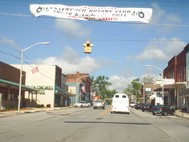 Looking west on Main Street (U.S. Route 224) in downtown Greenwich, Ohio, United States.